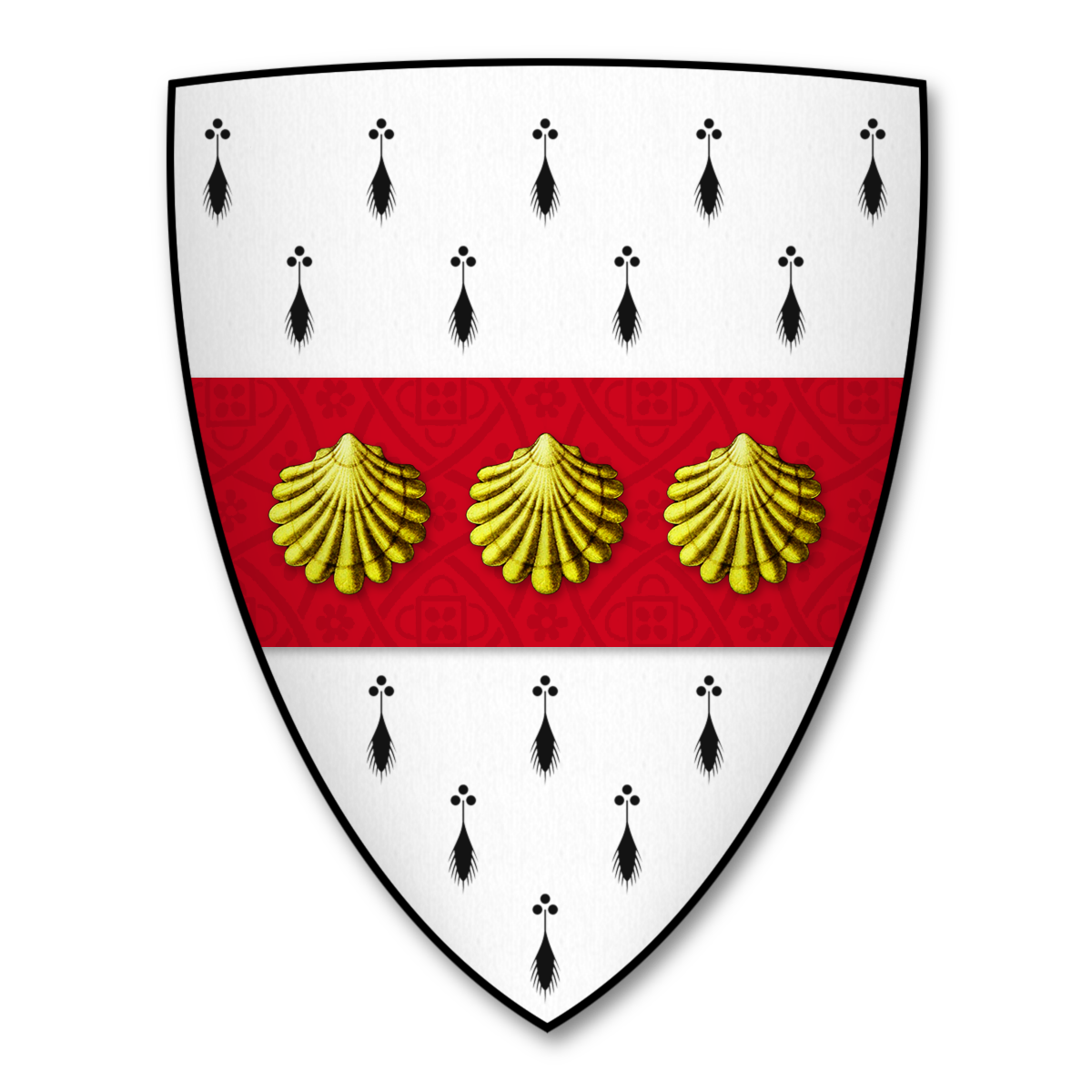 Armorial Bearings or the INGRAM family of the County of Hereford Arms: Ermine on a fess gules three escallops or. Crest: A griffin's head quarterly gules and argent. Strong, George (1848) The Heraldry of Herefordshire: Being a Collection of the Armorial Bearings of Families Which Have Been Seated in the County at Various Periods Down to the Present Time., London: Churton Press